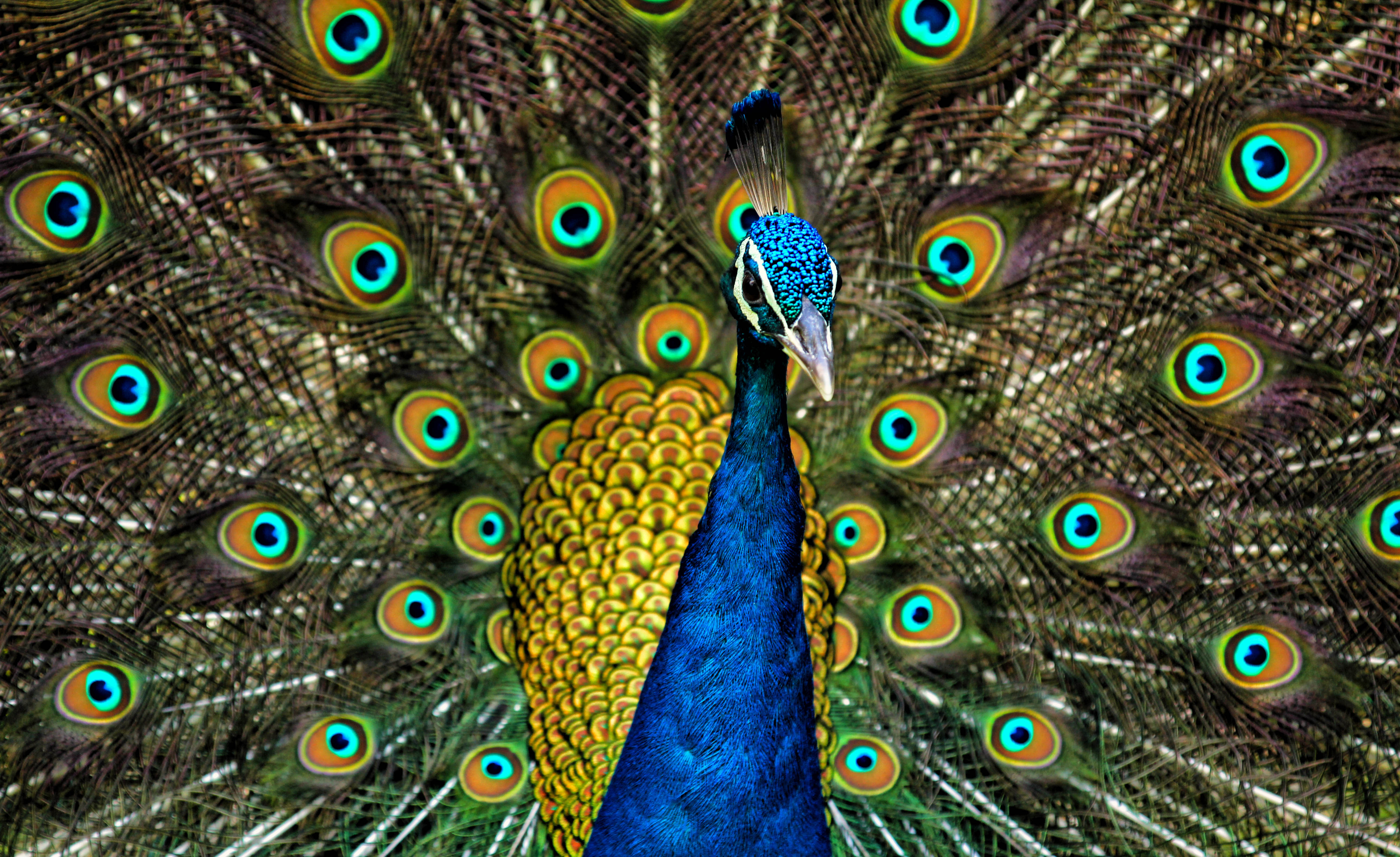 A peacock showing off its colours, Sultanpur National Park